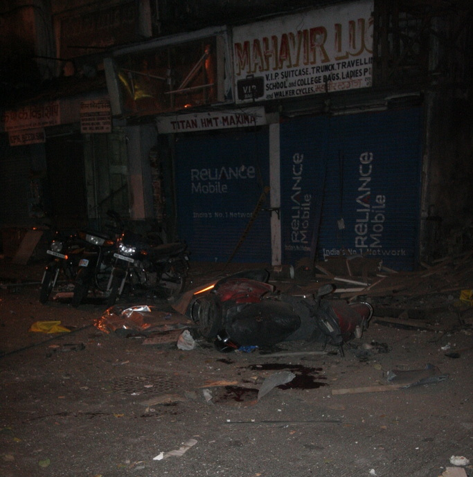 Image by VINU[1] of Mumbai Attacks